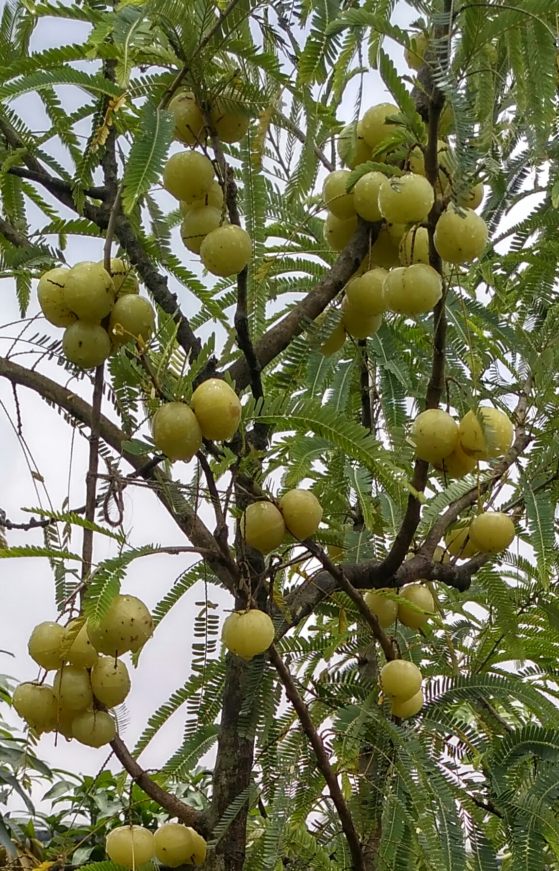 Picture of amla with leaves . This photo was captured from National Tree Fair 2018, at Sher-e-Bangla Nagar, Dhaka, Bangladesh. Bangla : আমলকি ও এর পাতা।